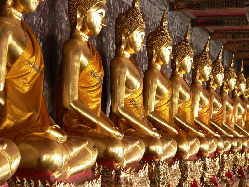 Buddha statues at Wat Suthat, Bangkok.